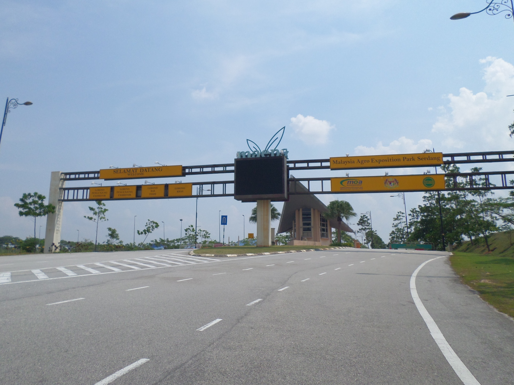 Malaysia Agro Exposition Park Serdang, Seri Kembangan, Petaling, Selangor, Malaysia